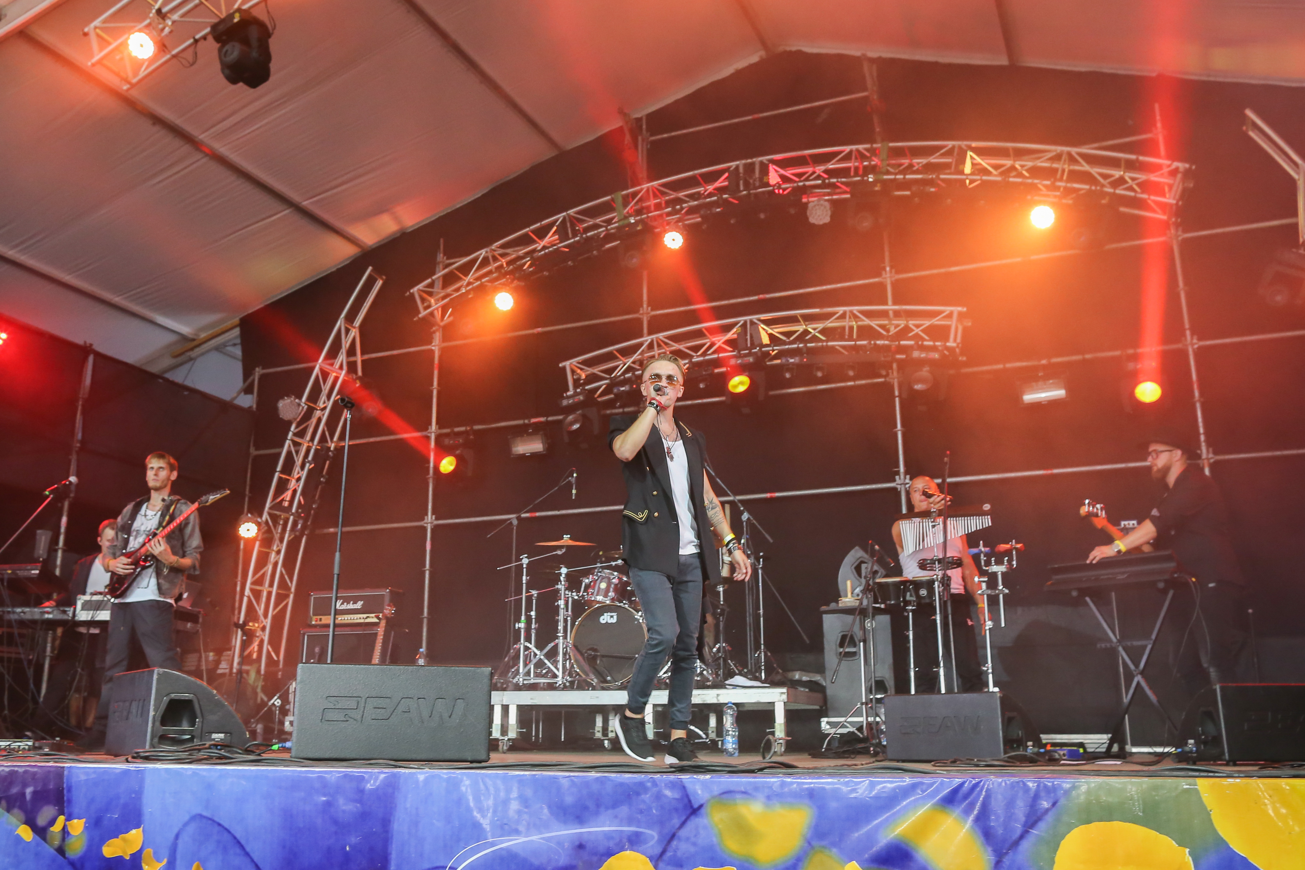 Przystanek Woodstock in 2017.